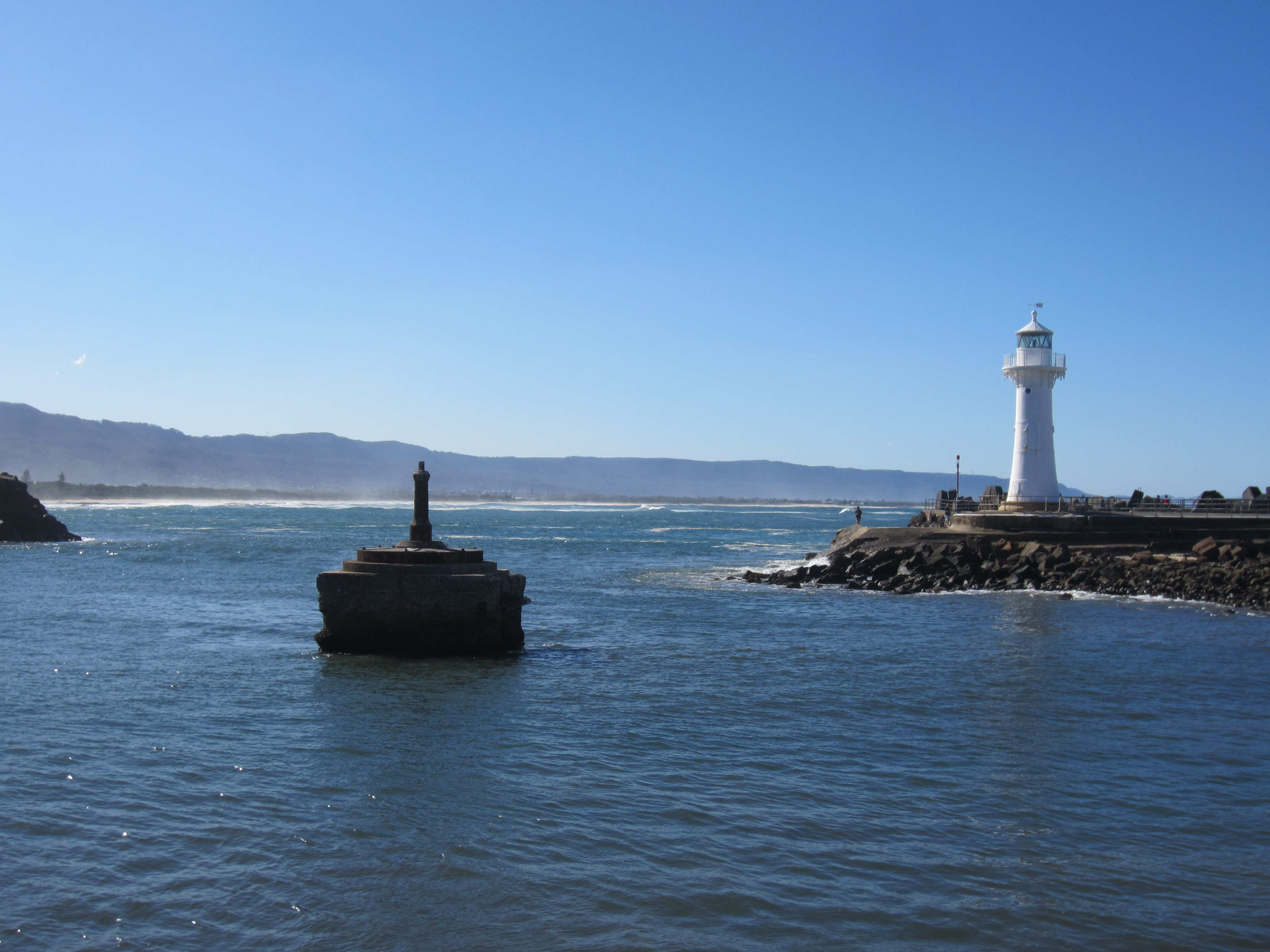 Base of Tee-Wharf Crane in foreground. Northern Illawarra Escarpment in backgound